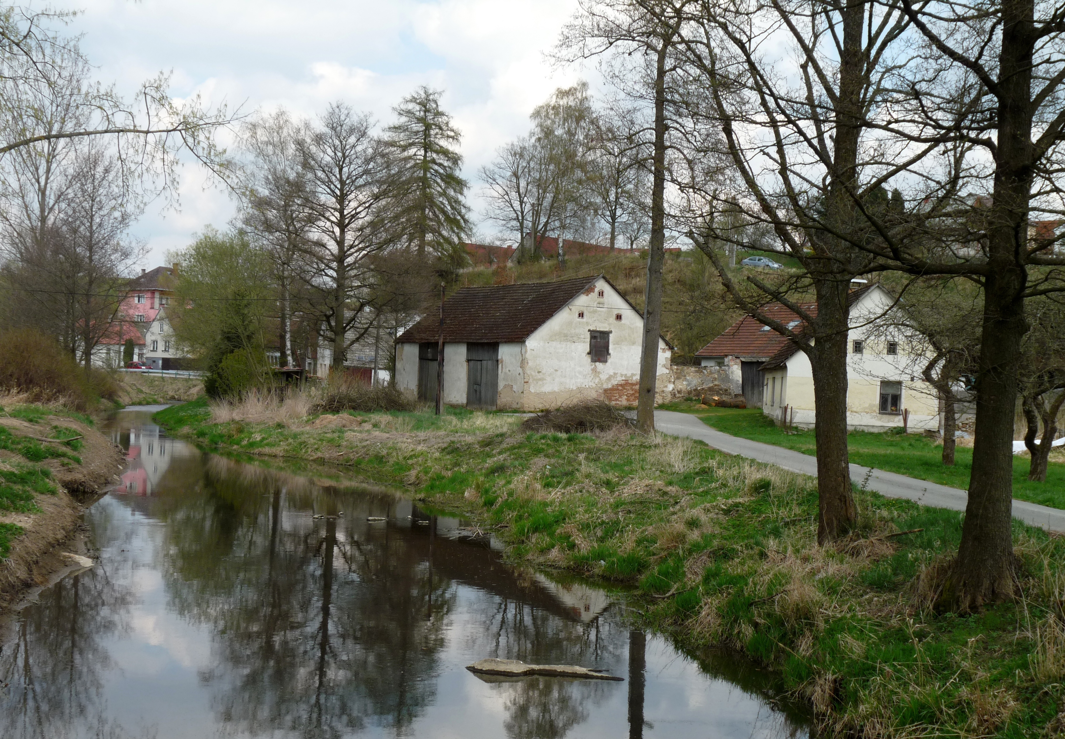 in the village of Žďár, Jindřichův Hradec District, South Bohemia, Czech Republic.